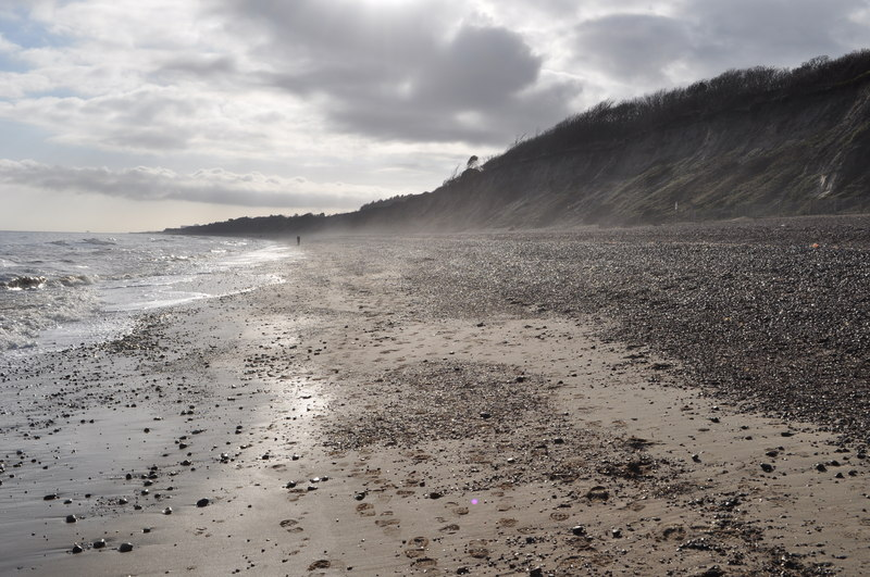 Dunwich Beach, near to Dunwich, Suffolk, Great Britain. Looking towards Sizewell.